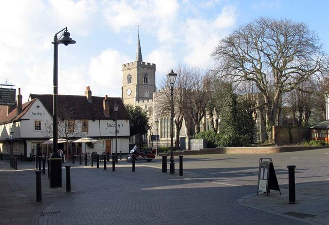 Pedestrianised area off High Street, Ware St. Mary's Church in distance.